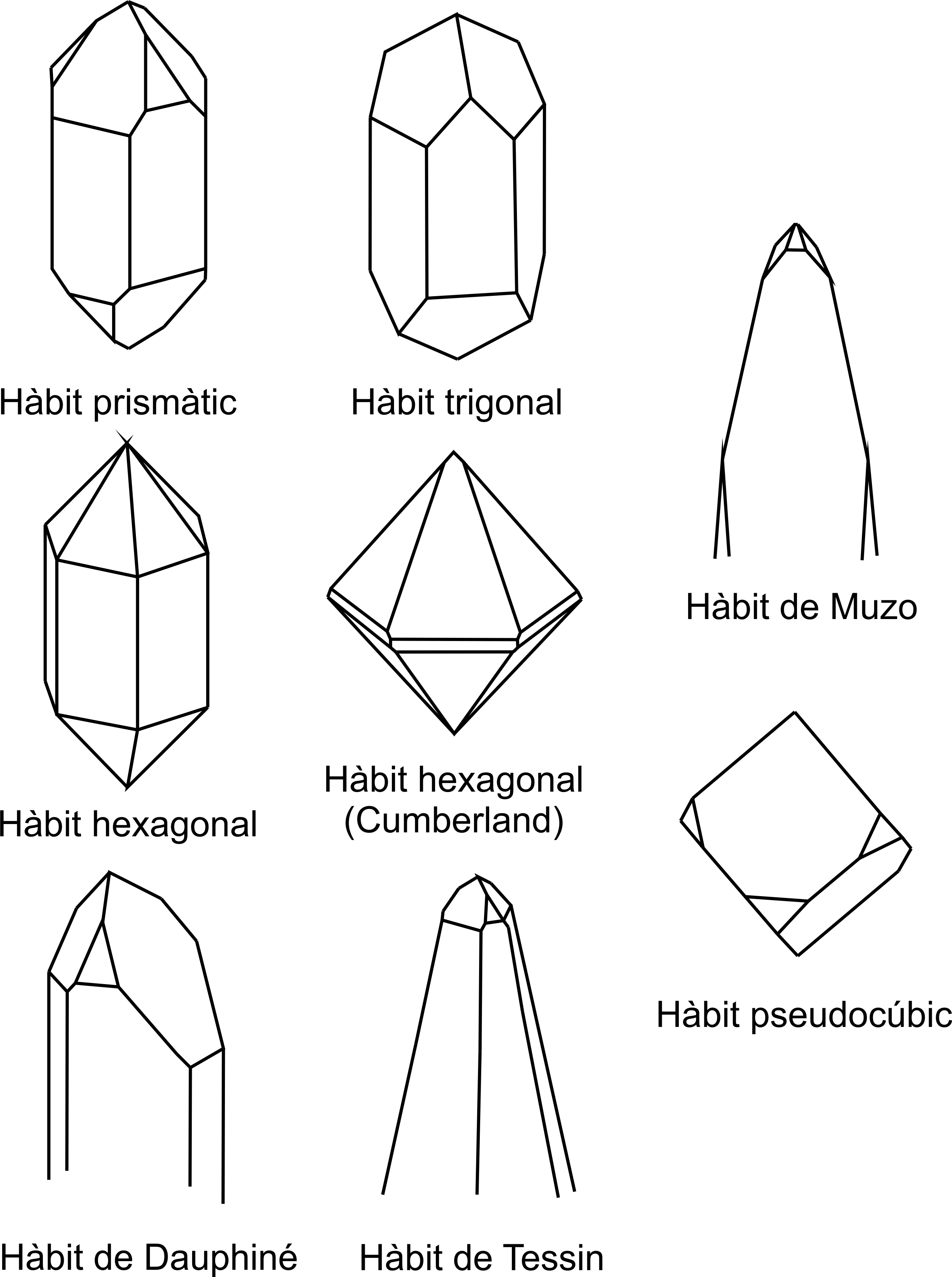 Quartz habits